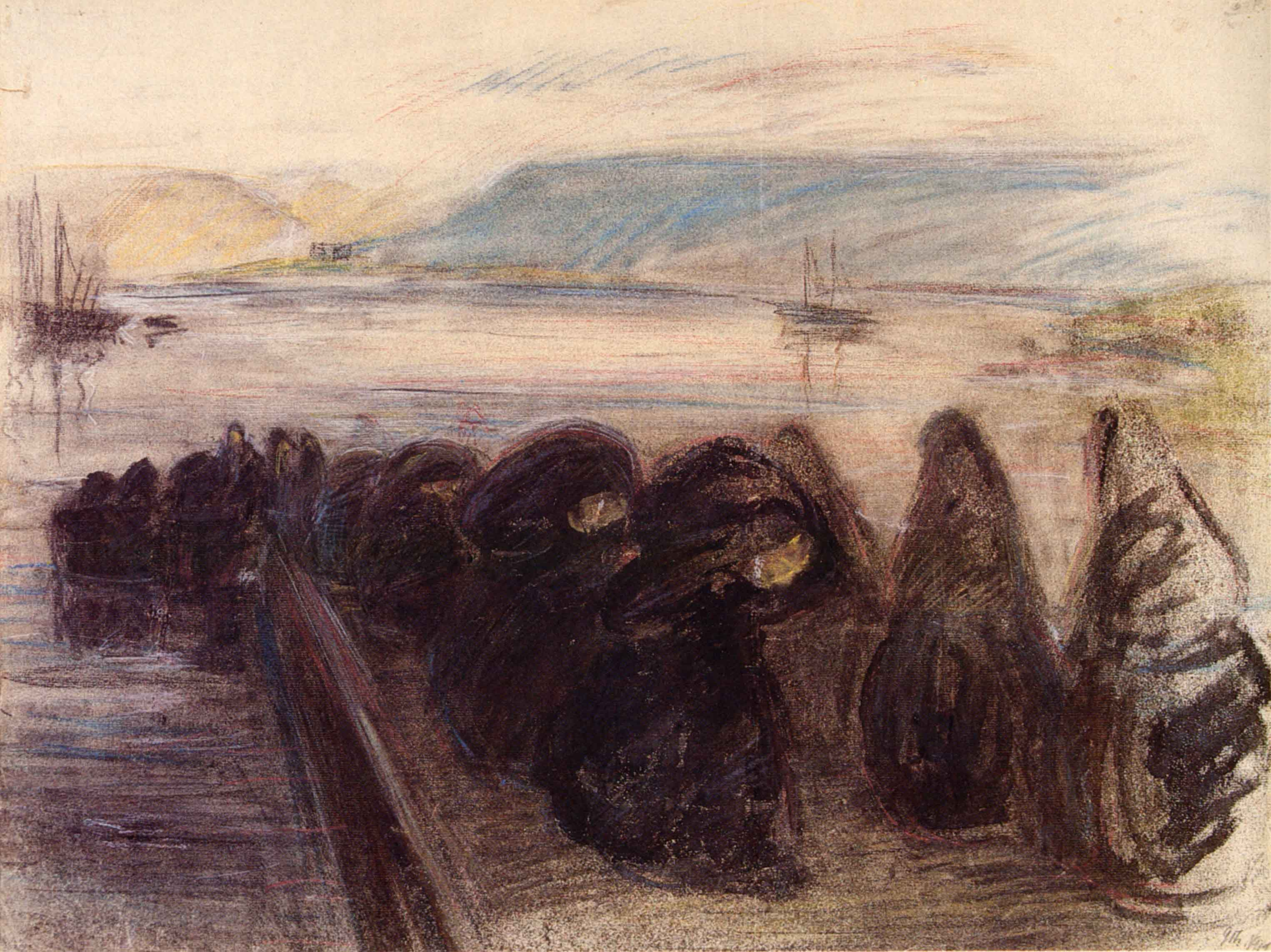 Kolaburður (Carrying Coal) by Guðmundur Thorsteinsson ("Muggur") (1891-1924). Made in 1919. Source and copyright Obtained from umm.is, an information portal about Icelandic artists. They don't specify where they obtained the image. Specific link: Published (in colour) in Björn Th. Björnsson (1960). Guðmundur Thorsteinsson : Muggur : Ævi hans og list. Reykjavík, Helgafell." page 99. This may or may not have been the first publication.